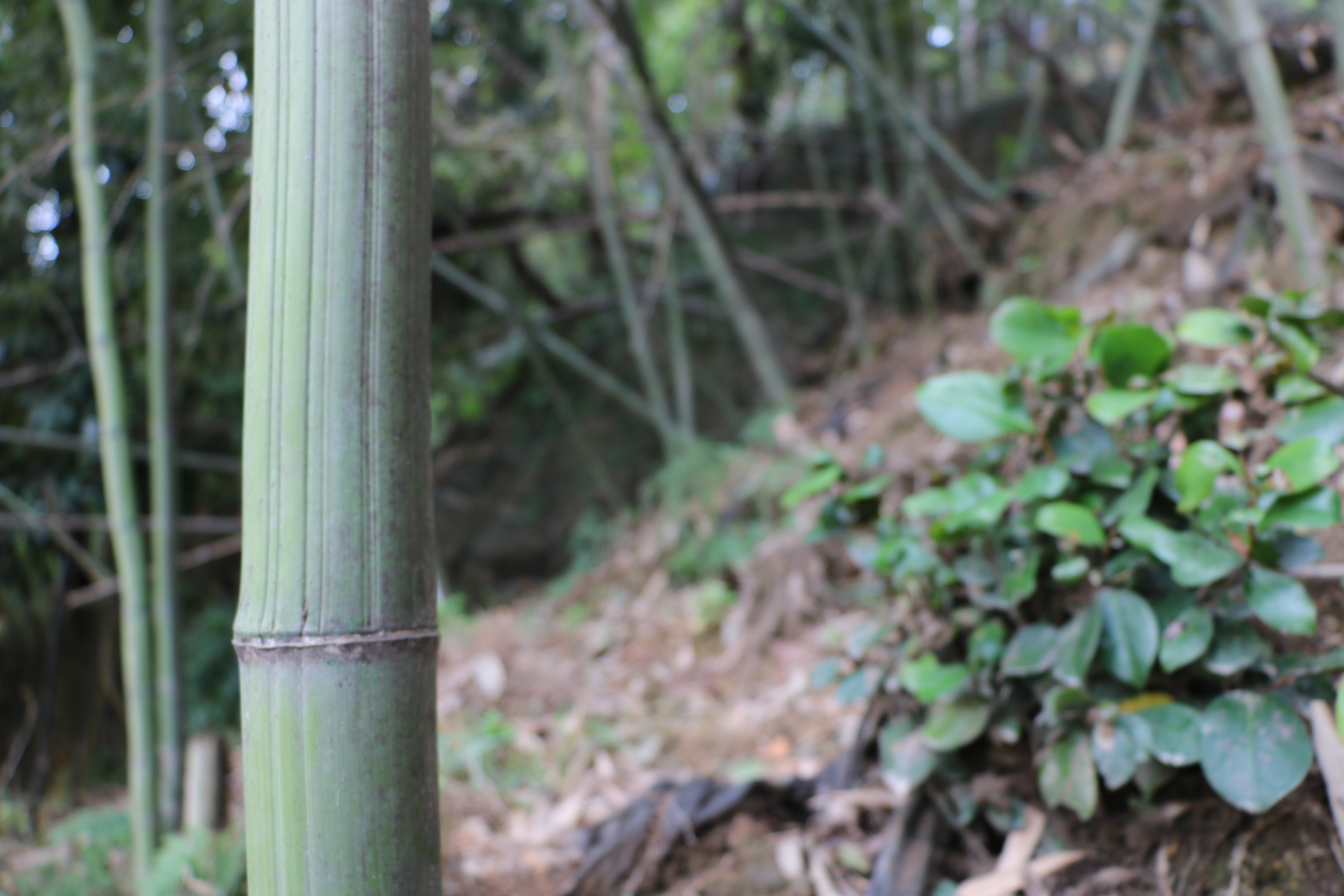 Tatsuno no Katashibo Chikurin Bamboos